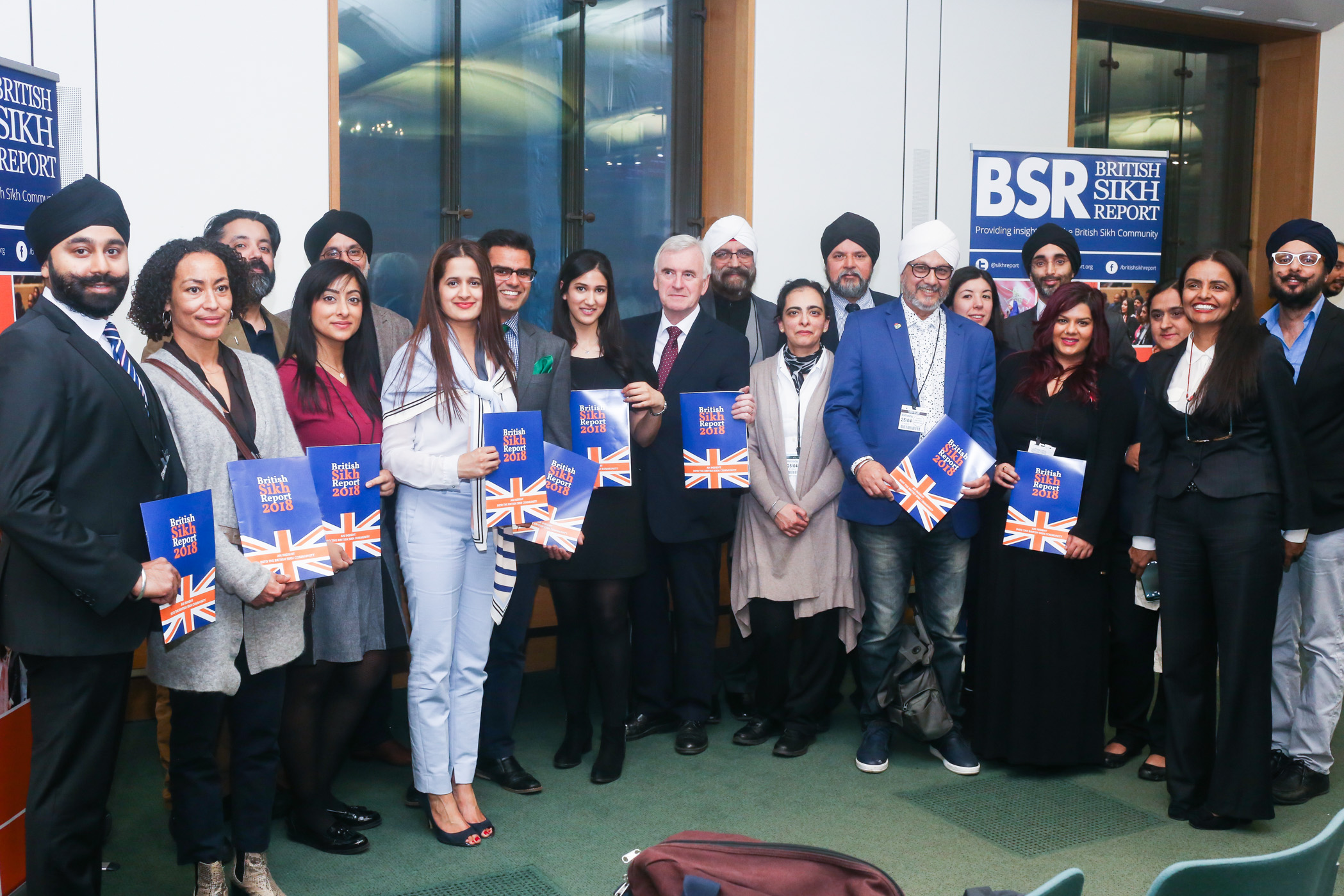 Parliamentary Launch of the British Sikh Report 2018 with the Rt Hon John McDonnell MP